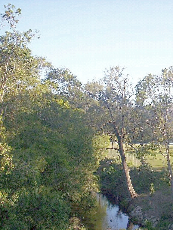 Enoggera Creek from Walton Bridge, The Gap